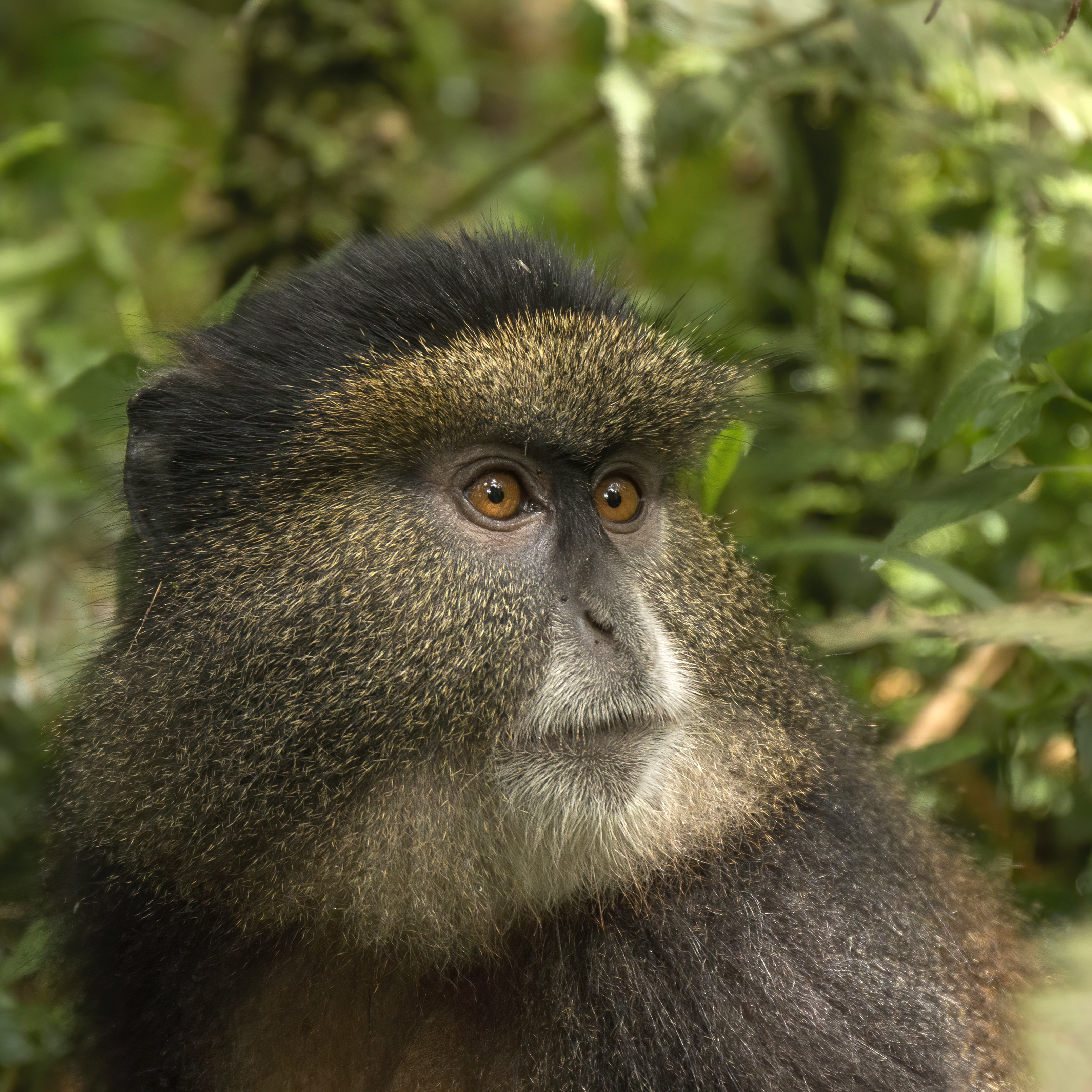 Golden monkey (Cercopithecus kandti), Volcanoes National Park, Rwanda